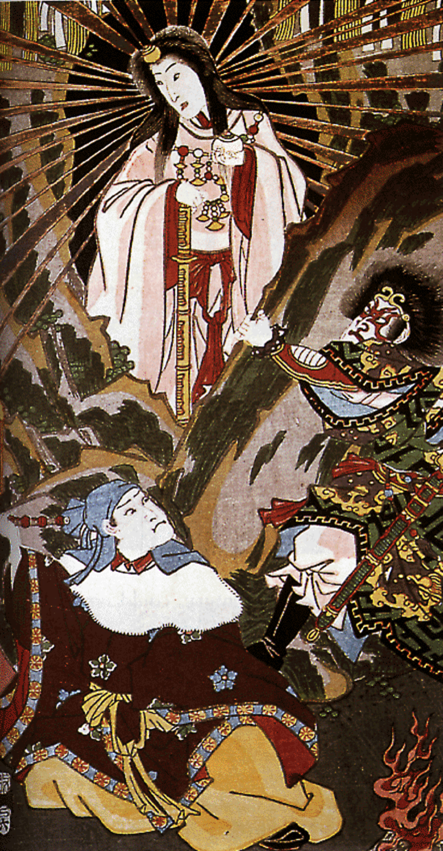 Japanese Sun goddess Amaterasu emerging from a cave. (This is a part of the full artwork).